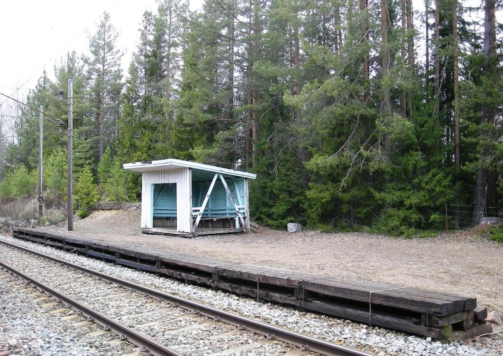 Viubråtan station on the Gjøvik line